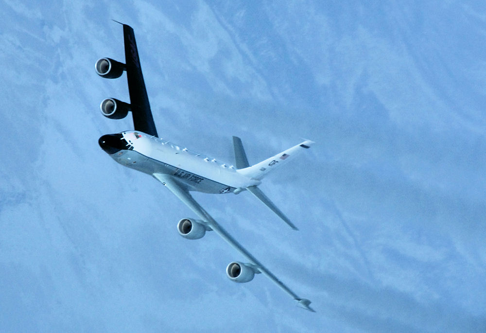 An RC-135 Cobra Ball from the 55th Reconnaissance Wing at Offutt Air Force Base, Neb., veers away from a KC-135 Stratotanker after being refueld March 26 over the Pacific Alaska Range Complex